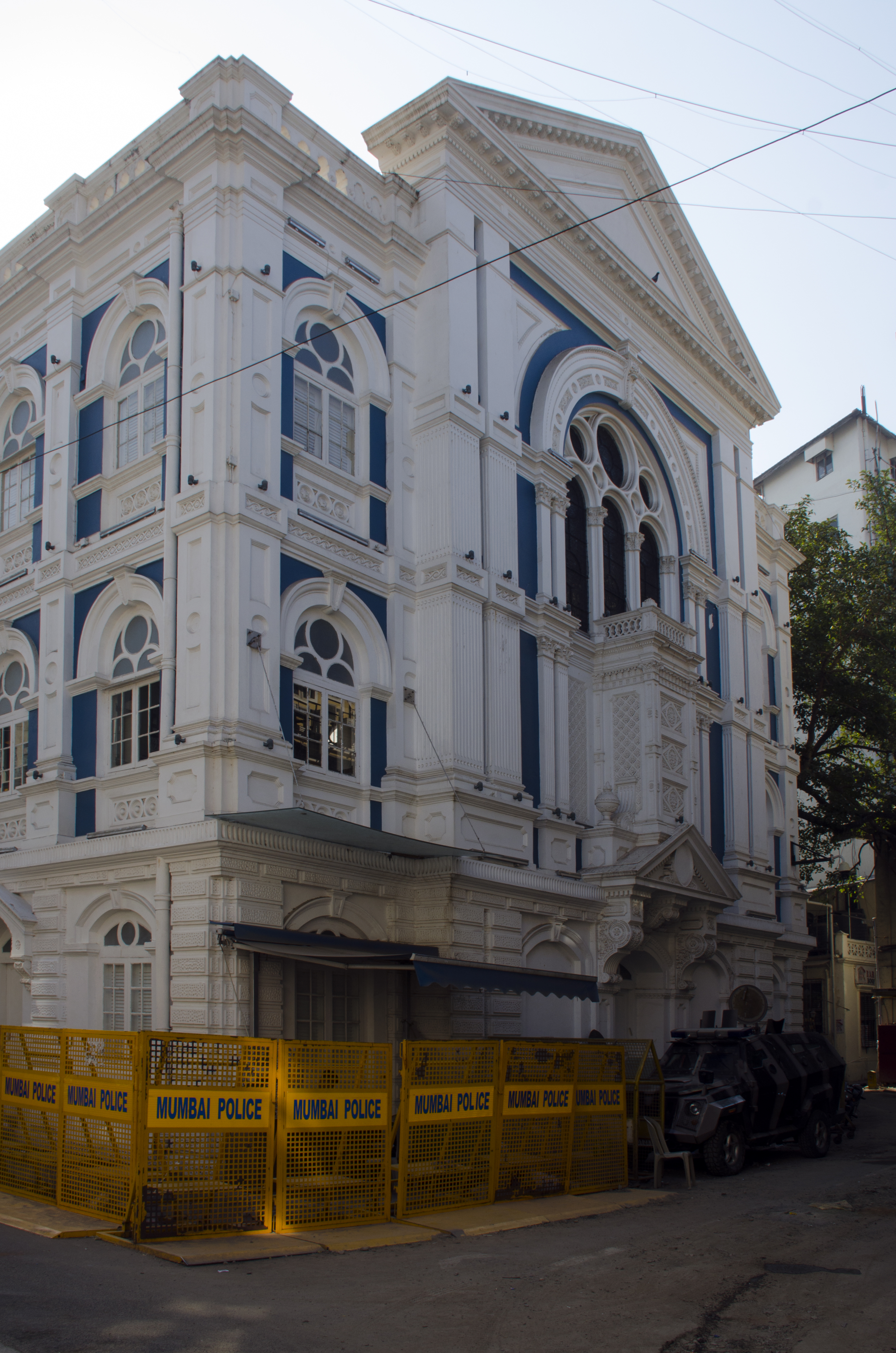 Keneseth Eliyahoo Synagogue, Mumbai